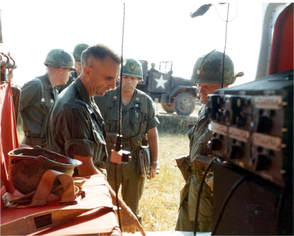 LTC Joseph B. Rogers (Chicago, Illinois), CO, 1st Bu, 327th Inf, 101st Abn Div, holds a front line briefing on his unit's situation with BG Willard Pearson, CG, 1st Bde, 101st Abn Div, by the General's helicopter in a field near the 1st Bu, 327th Inf Command Post area, during Operation "Harrison". 1966.